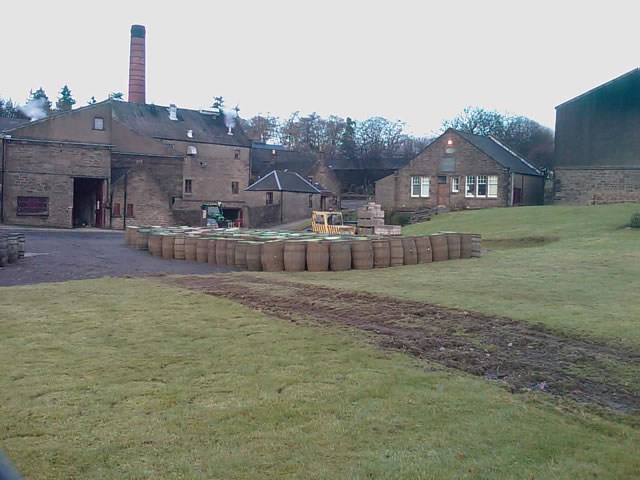 Glencadam Distillery Brechin's distillery is sited between the football ground and the disused Brechin-Forfar railway.